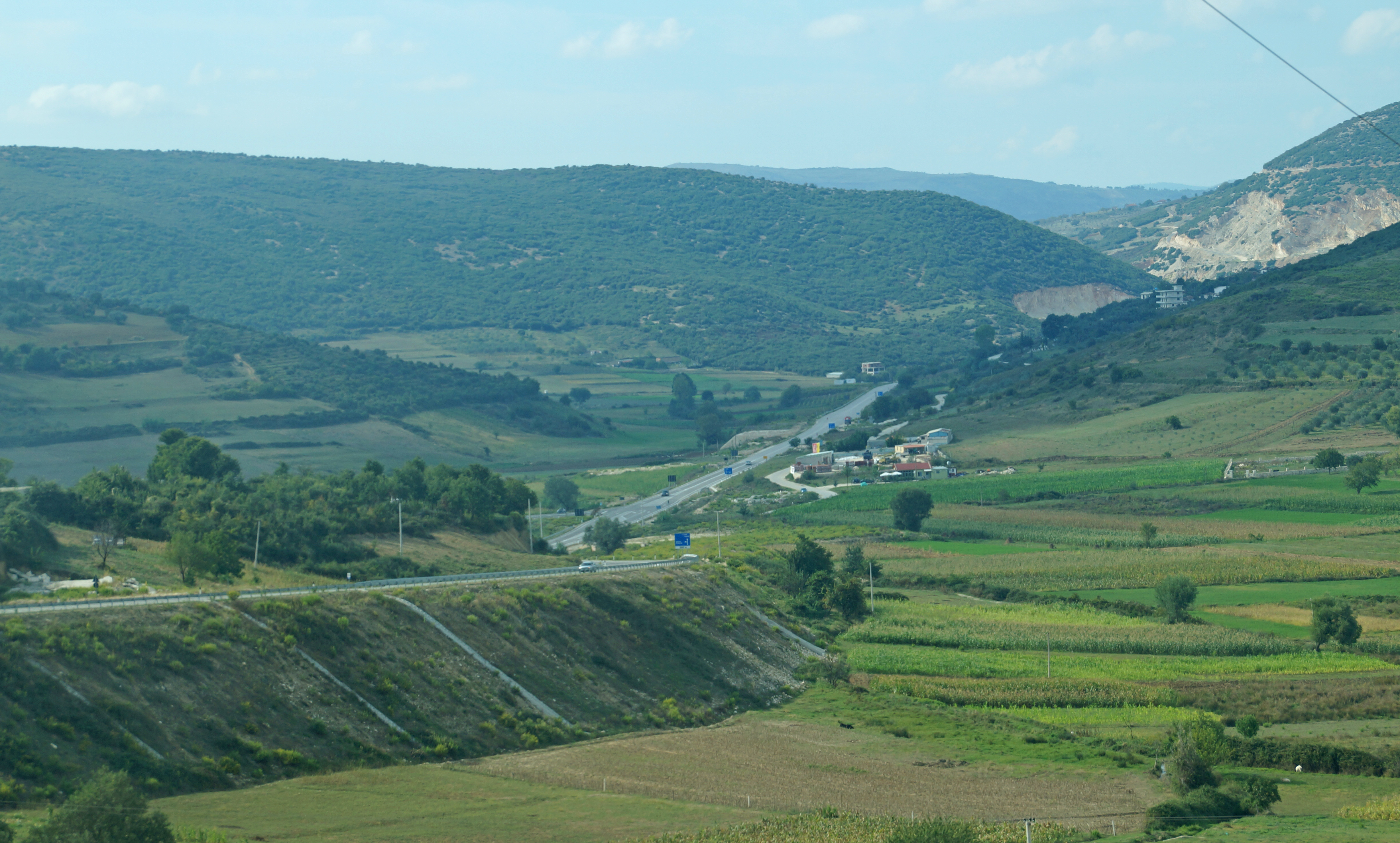 SH4 in Southern Albania close to Damës